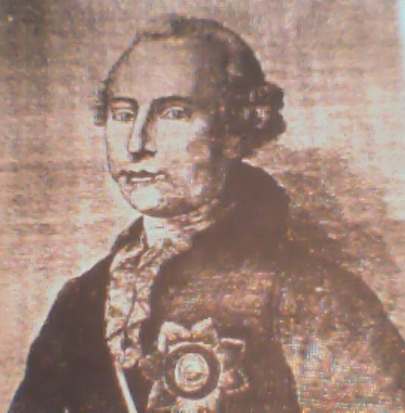 Feliks Łojko-Rędziejowski - polish diplomat. ambassador in Paris in 1766